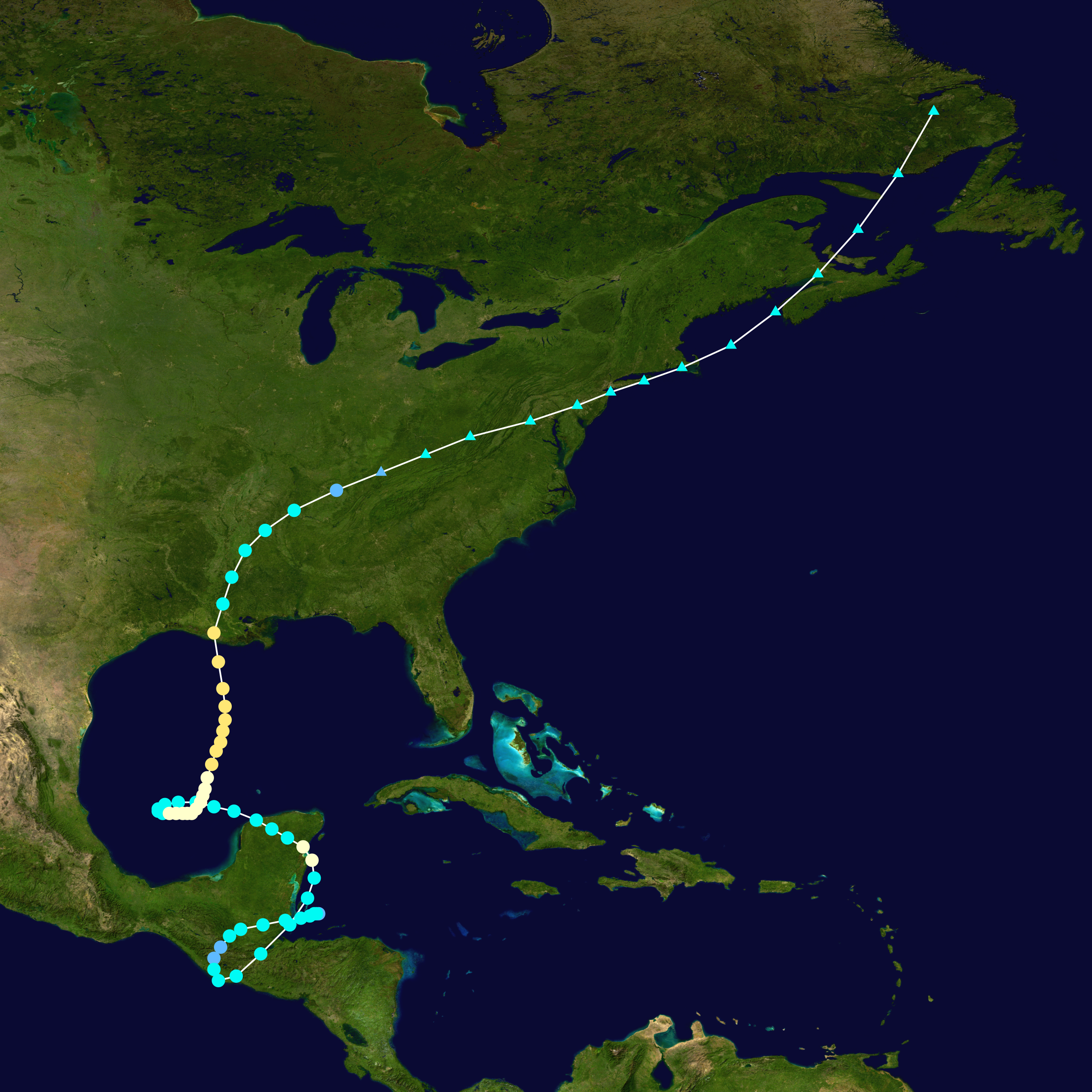 1934 Central America hurricane track. Uses the color scheme from the Saffir-Simpson Hurricane Scale.